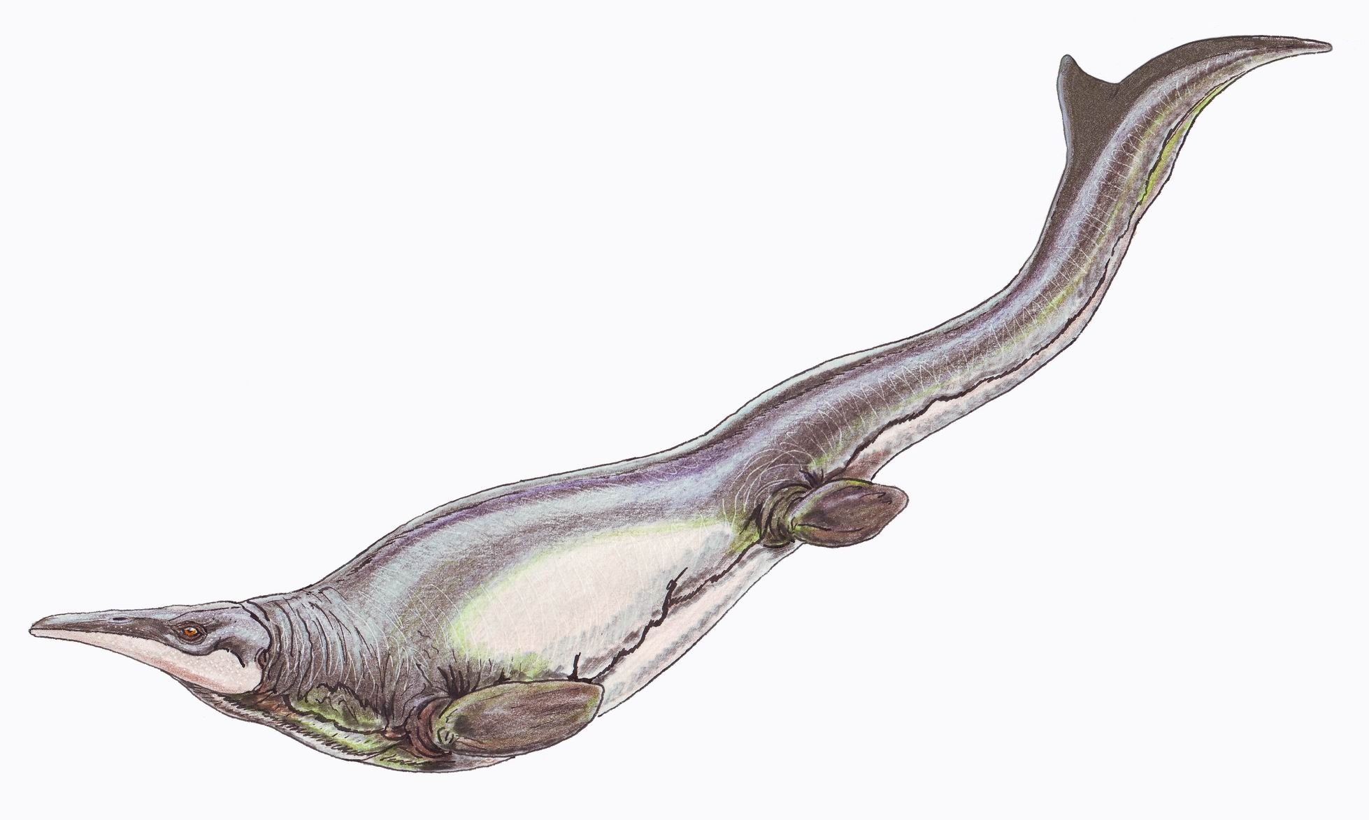 Plotosaurus bennisoni is a mosasaur from the Upper Cretaceous (Maastrichtian) North America.